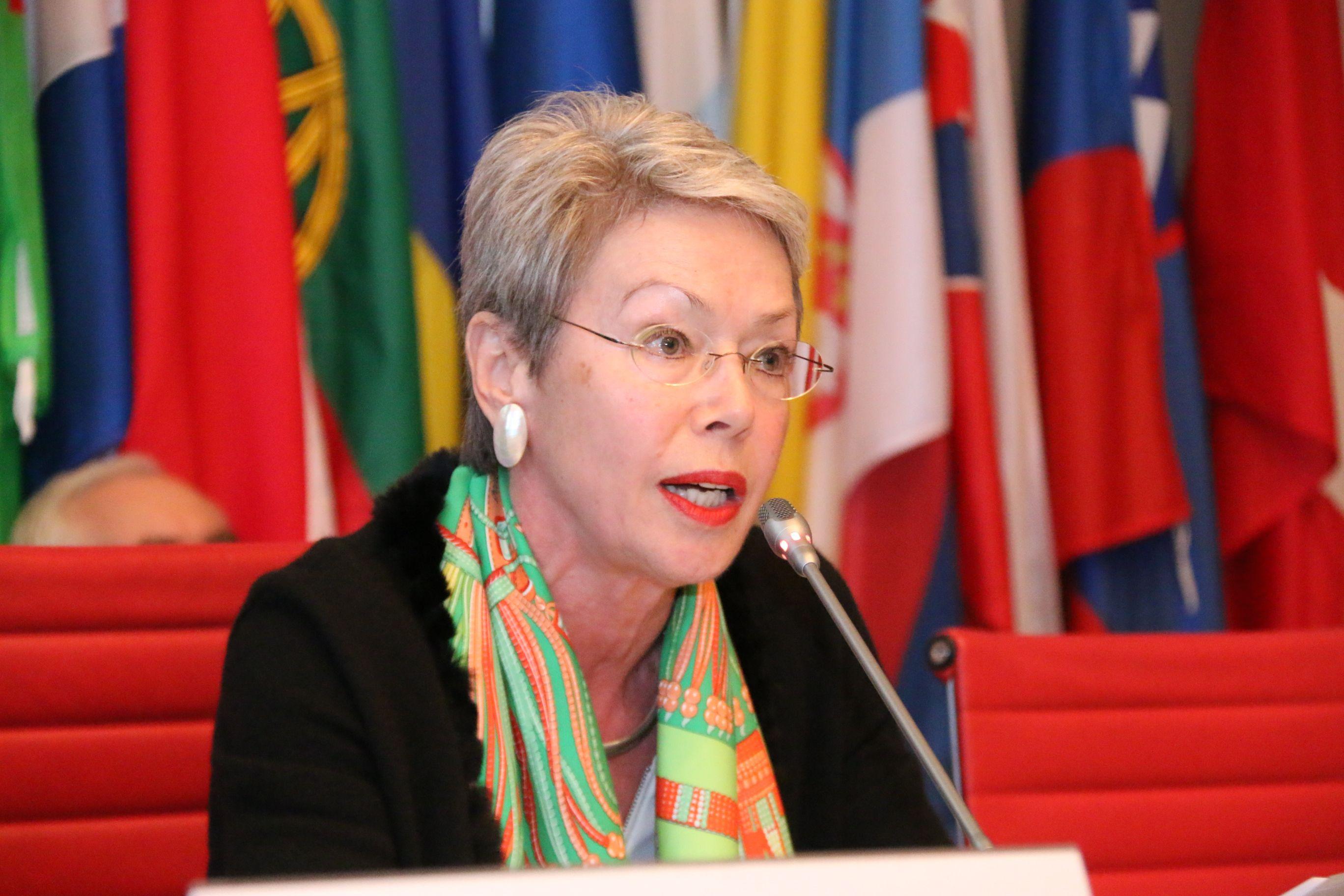 Heidi Tagliavini speaks at OSCE PA Winter Meeting, 20 Feb. 2015, Vienna